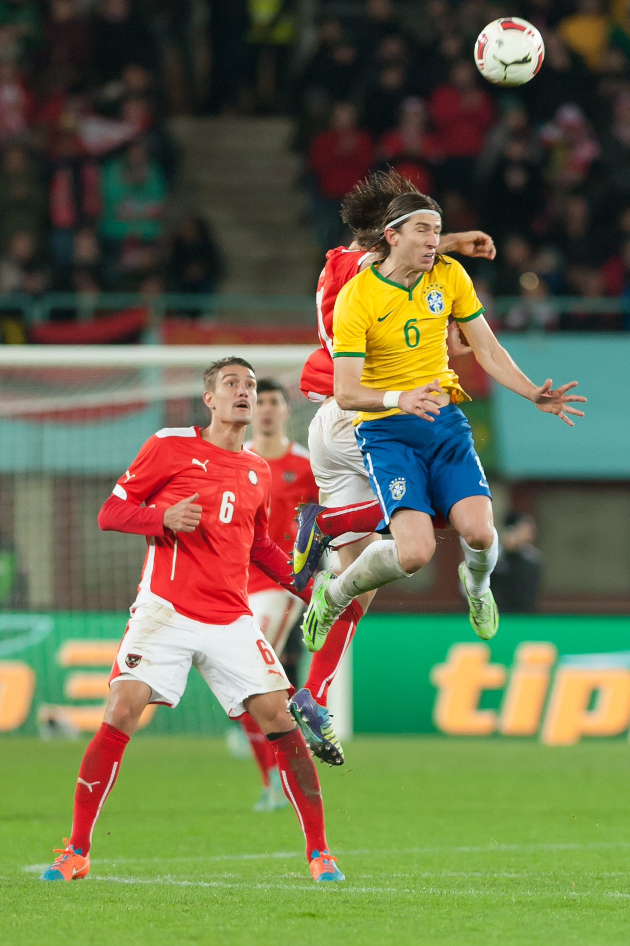 International Friendly Austria - Brazil November 18, 2014: Filipe Luis